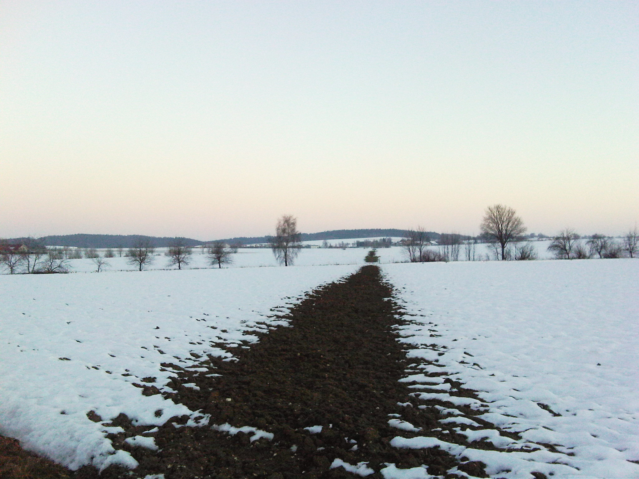 The Trans Alpine Pipeline route is visible in snowy conditions due to the warmth it emits